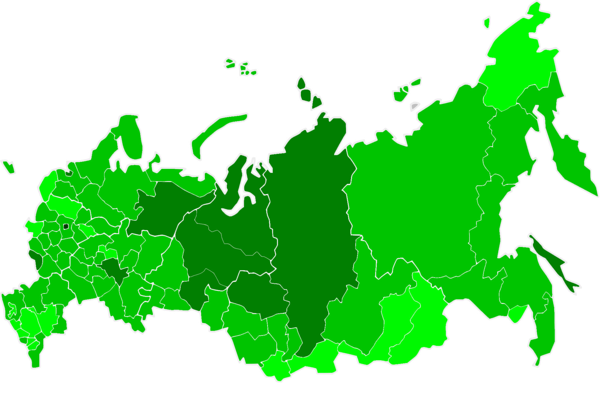 Russian regions by HDI 2010 detailed